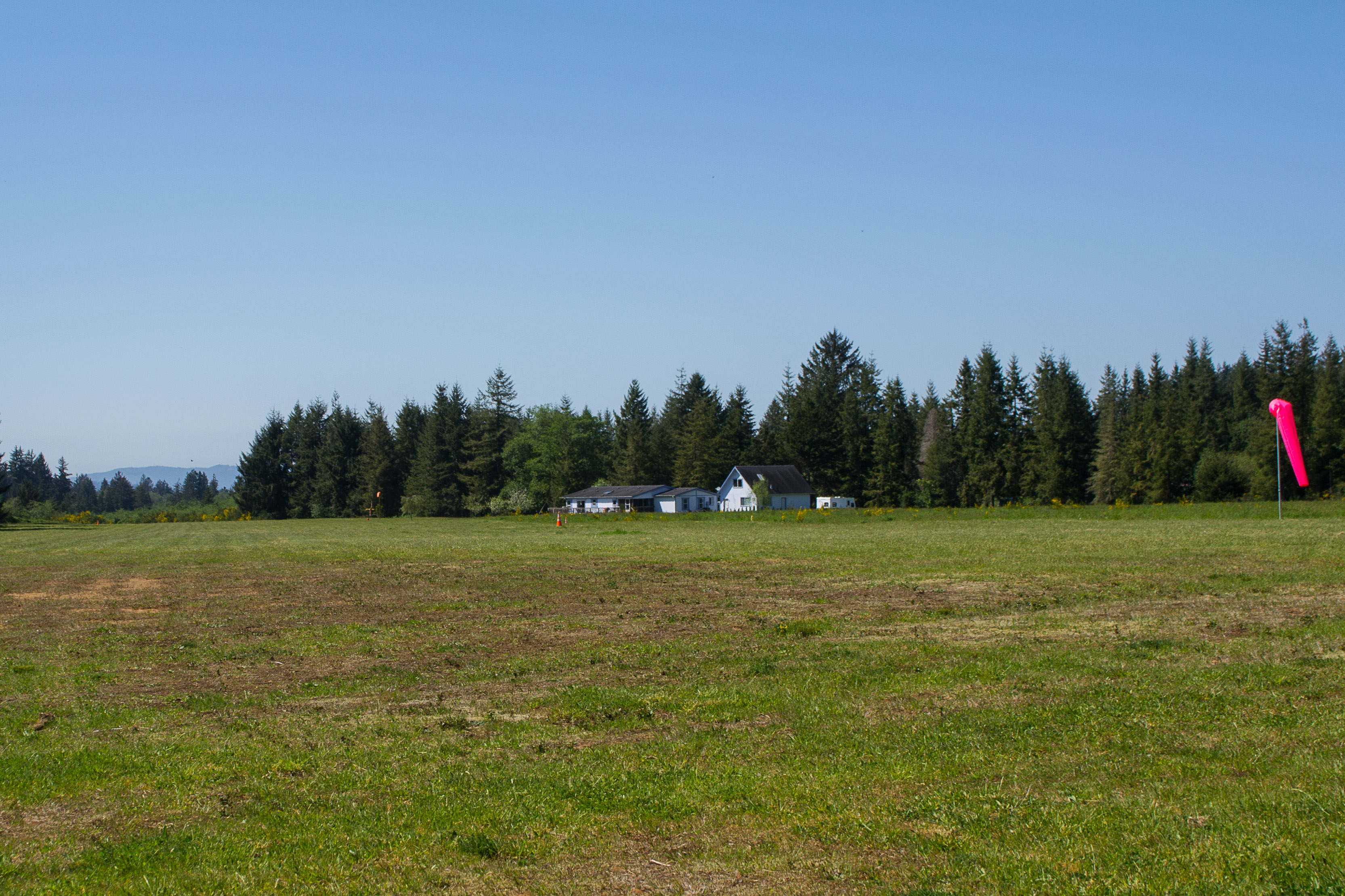 Karpens Airstrip near Astoria, Oregon